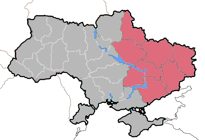 Map of roman-catholic dioceses in Ukraine - Kharkiv-Zaporizhia dioces location